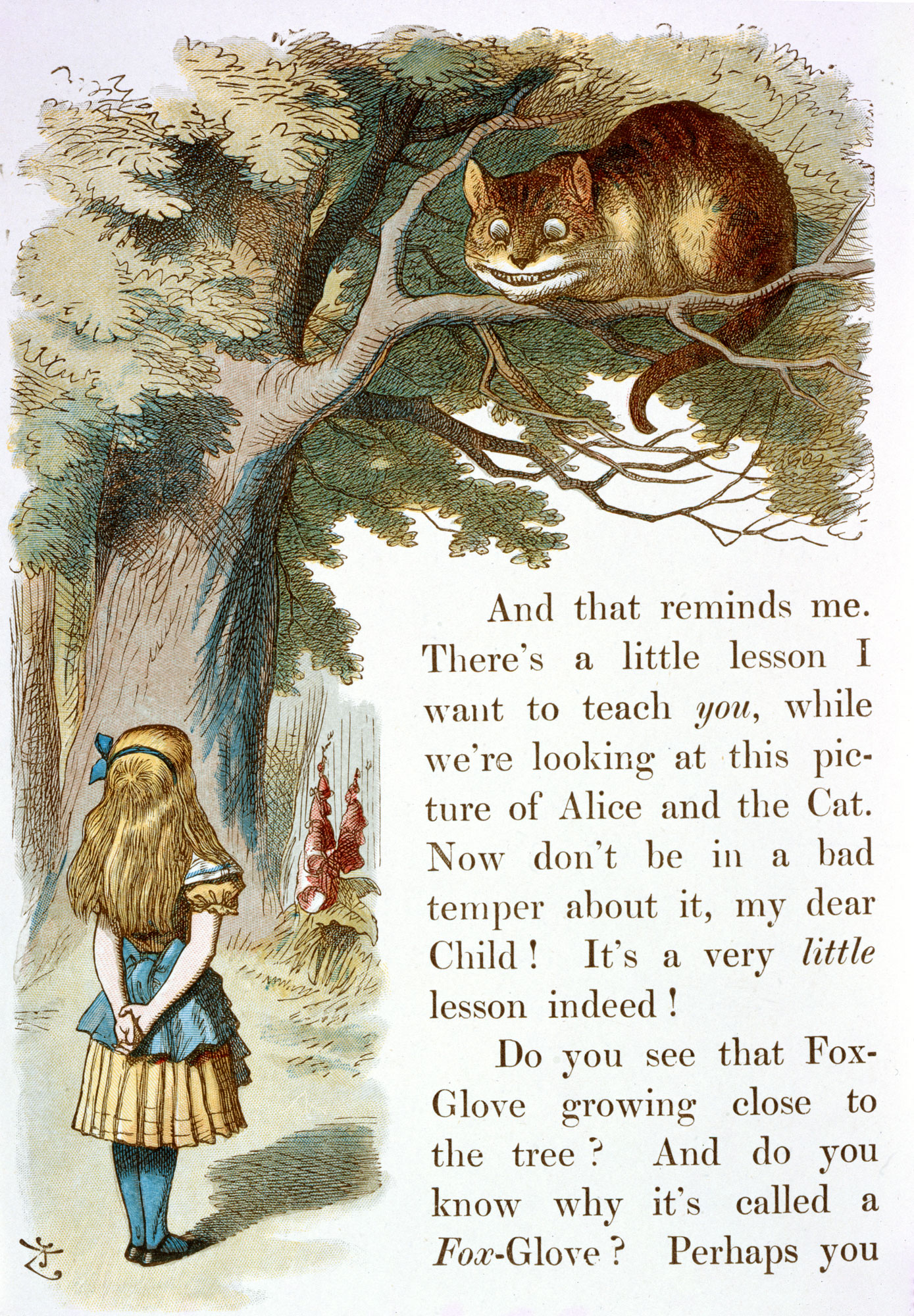 Illustration from The Nursery "Alice", containing twenty coloured enlargements from Tenniel's illustrations to "Alice's Adventures in Wonderland," with text adapted to nursery readers by Lewis Carroll. (London: Macmillan and Co. 1890) (Taken from British Library item Cup.410.g.74)